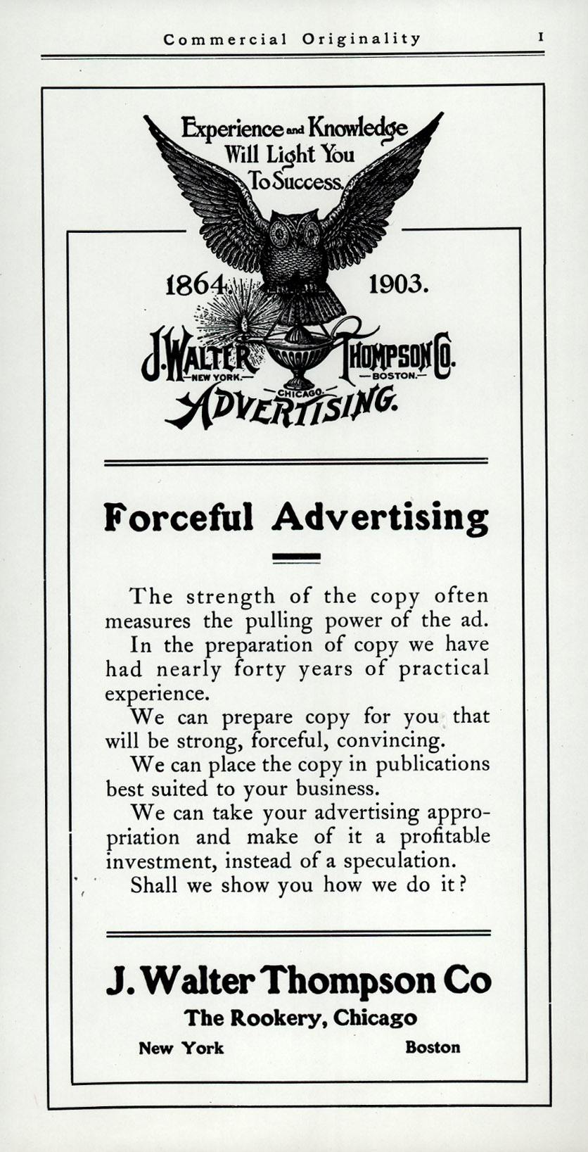 An adverstisement for the J. Walter Thompson Company from 1903